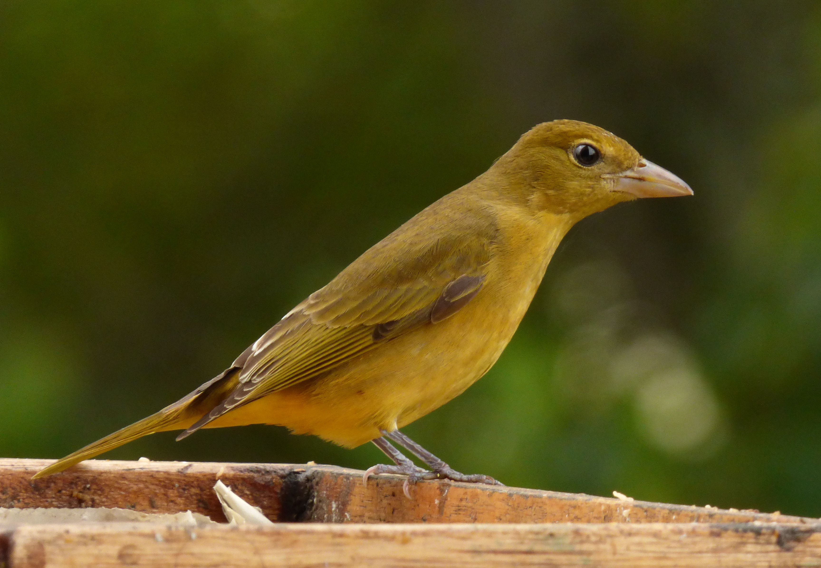 Summer tanager (Piranga rubra) - female